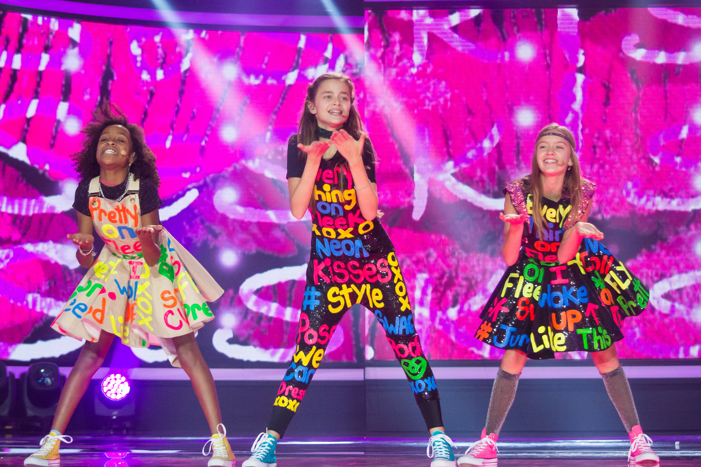 JESC 2016 participant: Kisses (Netherlands)